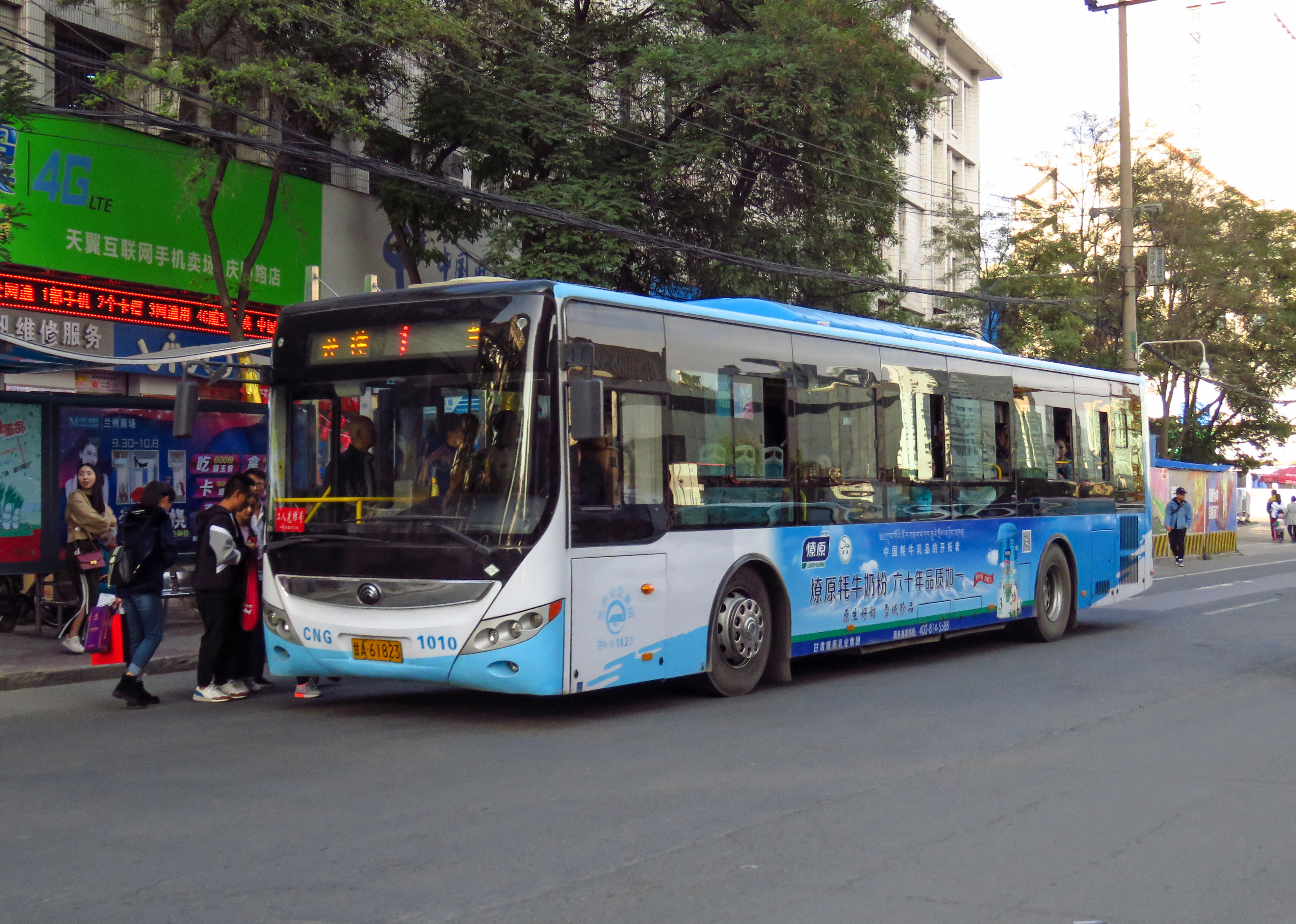 Route 1 from Lanzhou Railway Station to Lanzhouxi crew area, which is on the east of HSR station.